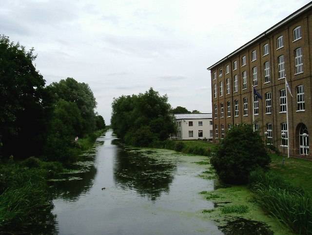 Old Maldon Iron Works on Chelmer and Blackwater canal at Heybridge, Essex.